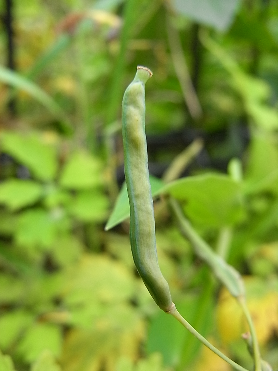 Pod of greater celandine. Chelidonium majus, var. asiaticum. At the Katahira Campus of Tōhoku University. Katahira 2 chōme, Aoba ward, Sendai, Miyagi prefecture, Japan.